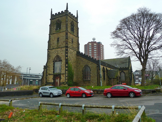 Former parish church of St John, St John's Street, Werneth, Oldham, seen from the west. Now deconsecrated and used as a warehouse.